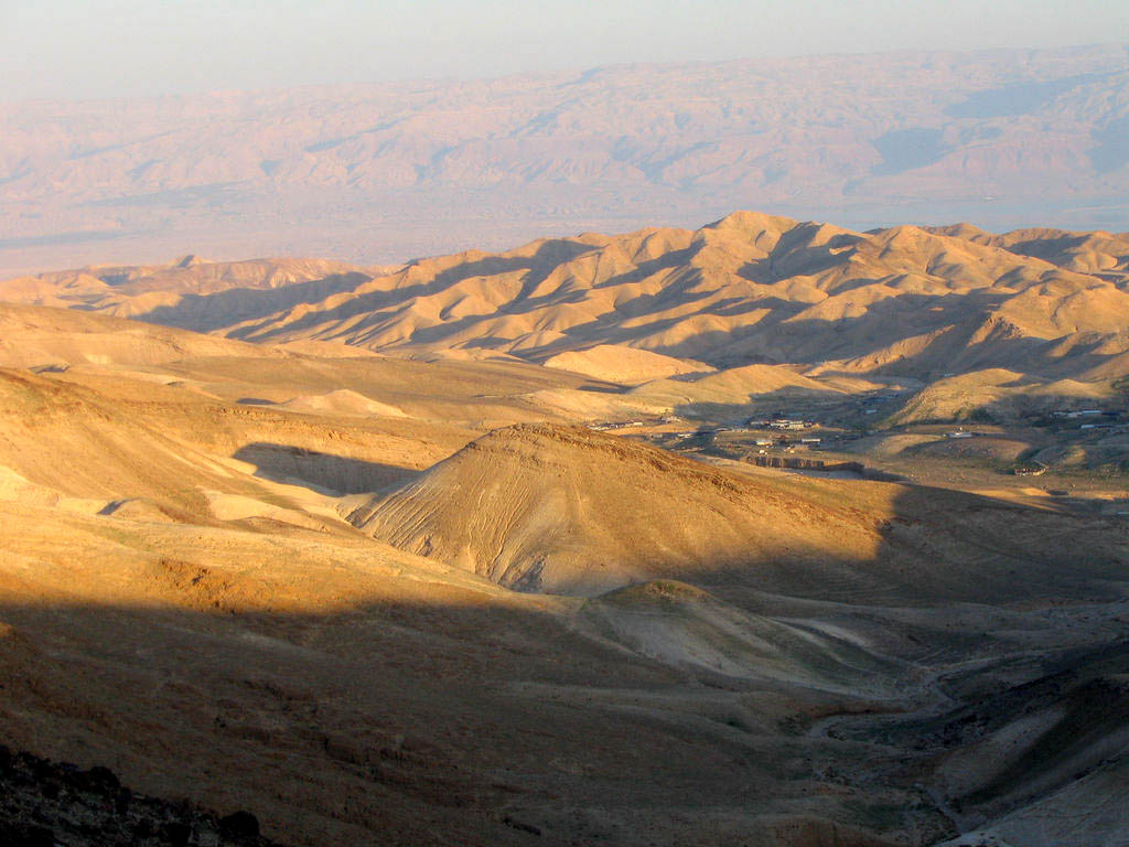 Desert hills in southern Judea, looking east from the town of Arad. land in Judea. Føroyskt: Judeiska oyðimørkin, útsýnið frá býnum Arad.